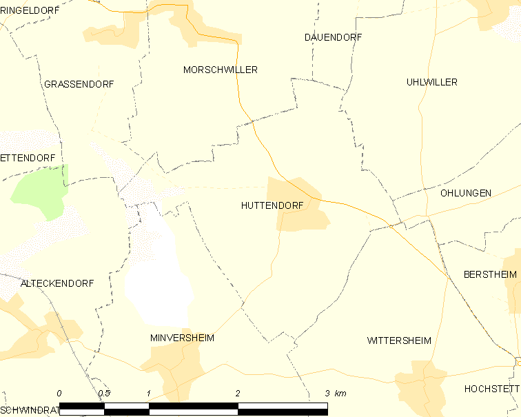 Map of French municipality